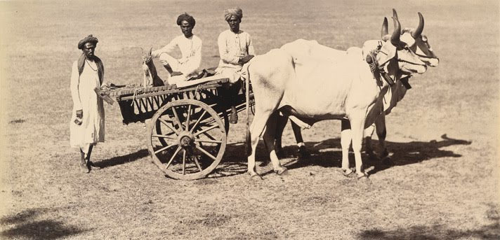 Photograph of a hunting lynx at Baroda, Gujarat from the Curzon Collection, taken by an unknown photographer during the 1890s. Hunting with trained wild cats was one of several royal sports traditionally favoured by Indian princes and continued during the 19th century. The lynx was chiefly used to hunt hare and birds and belonged to the Gaekwar Sayaji Rao III (ruled 1875-1939), 12th Maharaja of Baroda. In this view it is shown on a bullock-cart with its handlers.